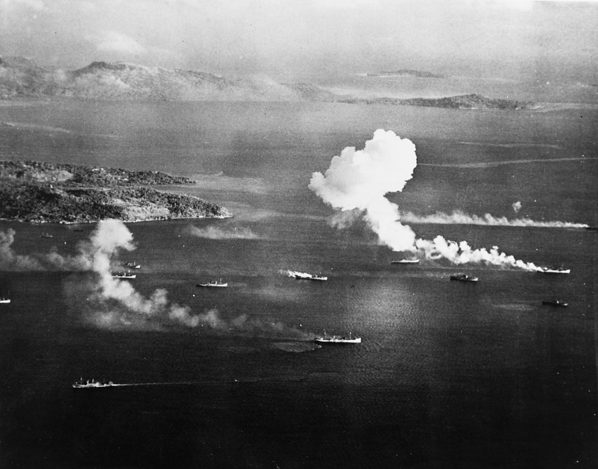 Japanese shipping under air attack in Truk Lagoon, as seen from a USS Intrepid (CV-11) aircraft on the first day of raids, 17 February 1944. Dublon Island is at left, with Moen Island in the background. Four of these ships appear to have been hit by this time.